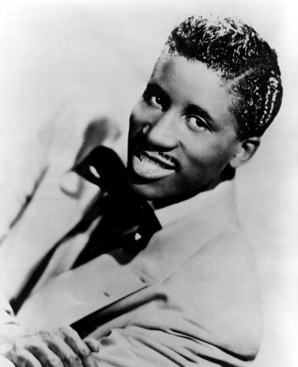 Photo of Screamin' Jay Hawkins from his appearance on the Alan Freed television program Rock 'N' Roll Revue.